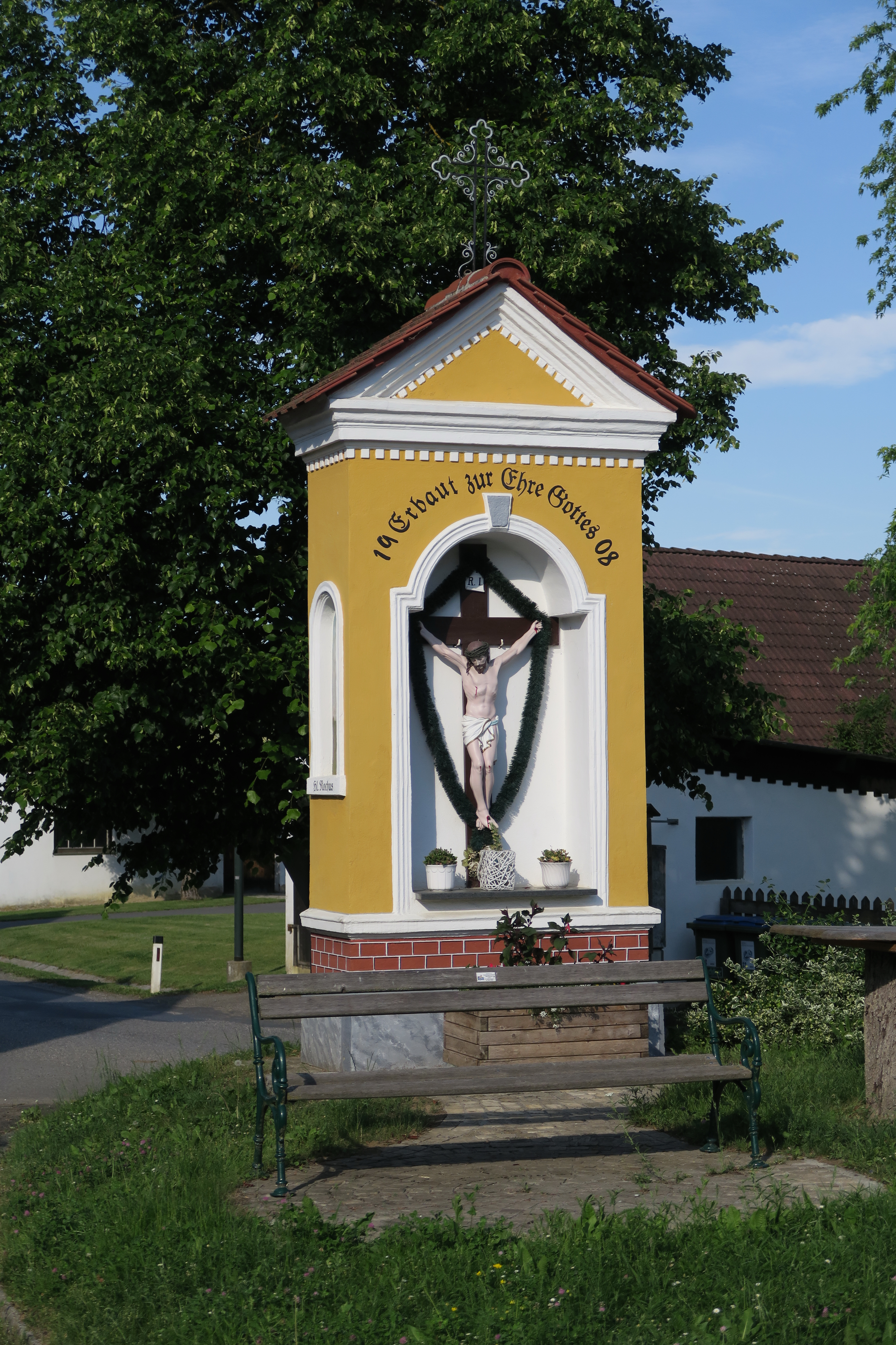 Chapel Schwarzmannshofen